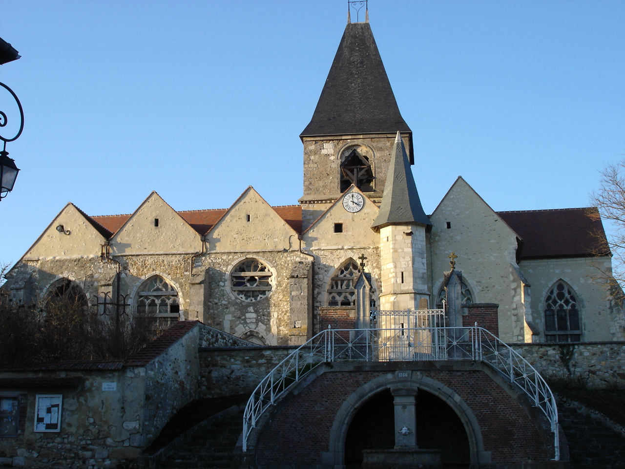 Saint Georges church of Loisy-en-Brie, Marne , France